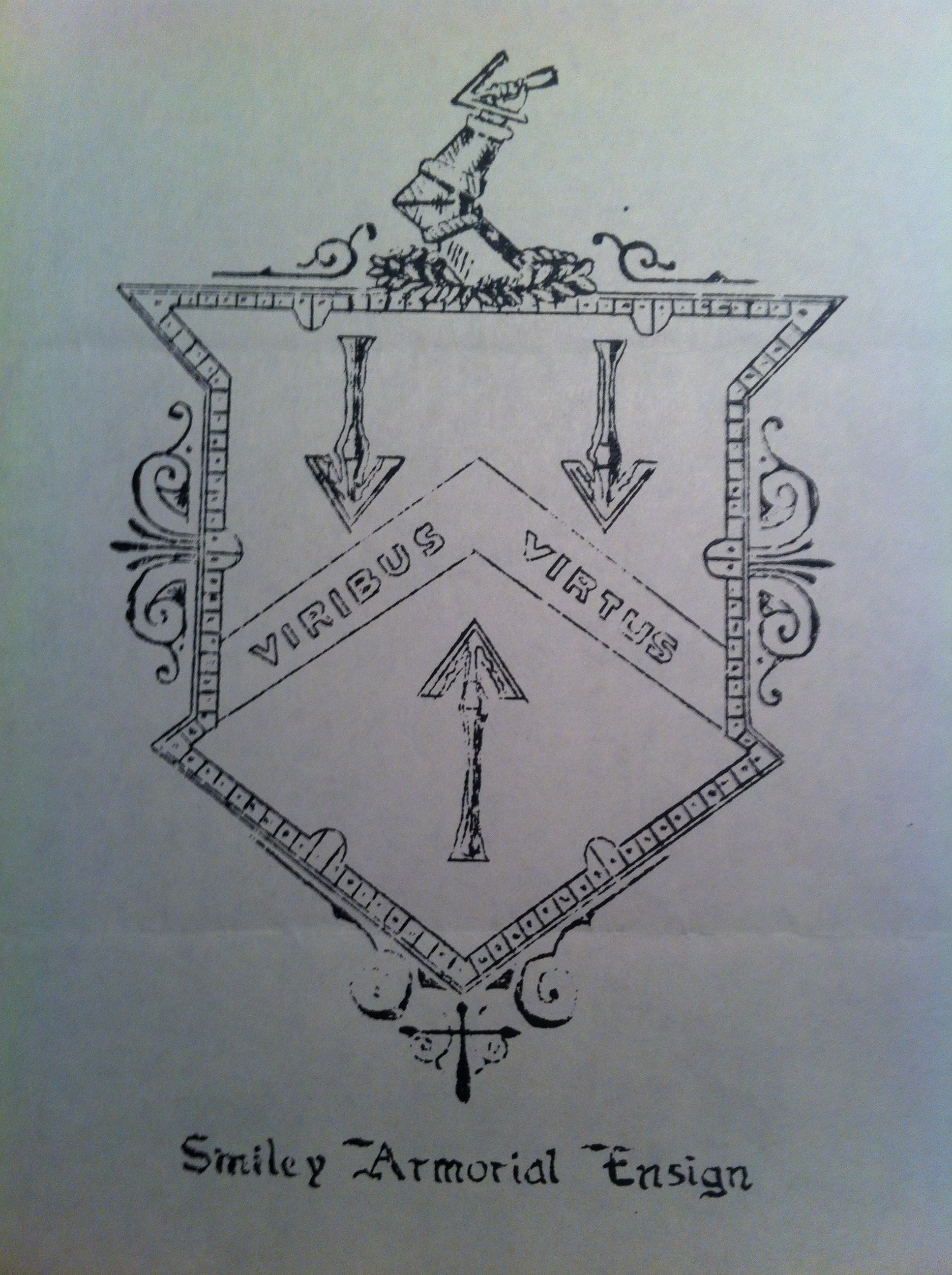 Smiley Ensign draft with motto